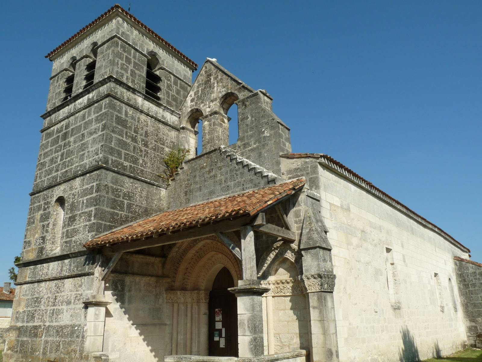 church of Ars, Charente, SW France